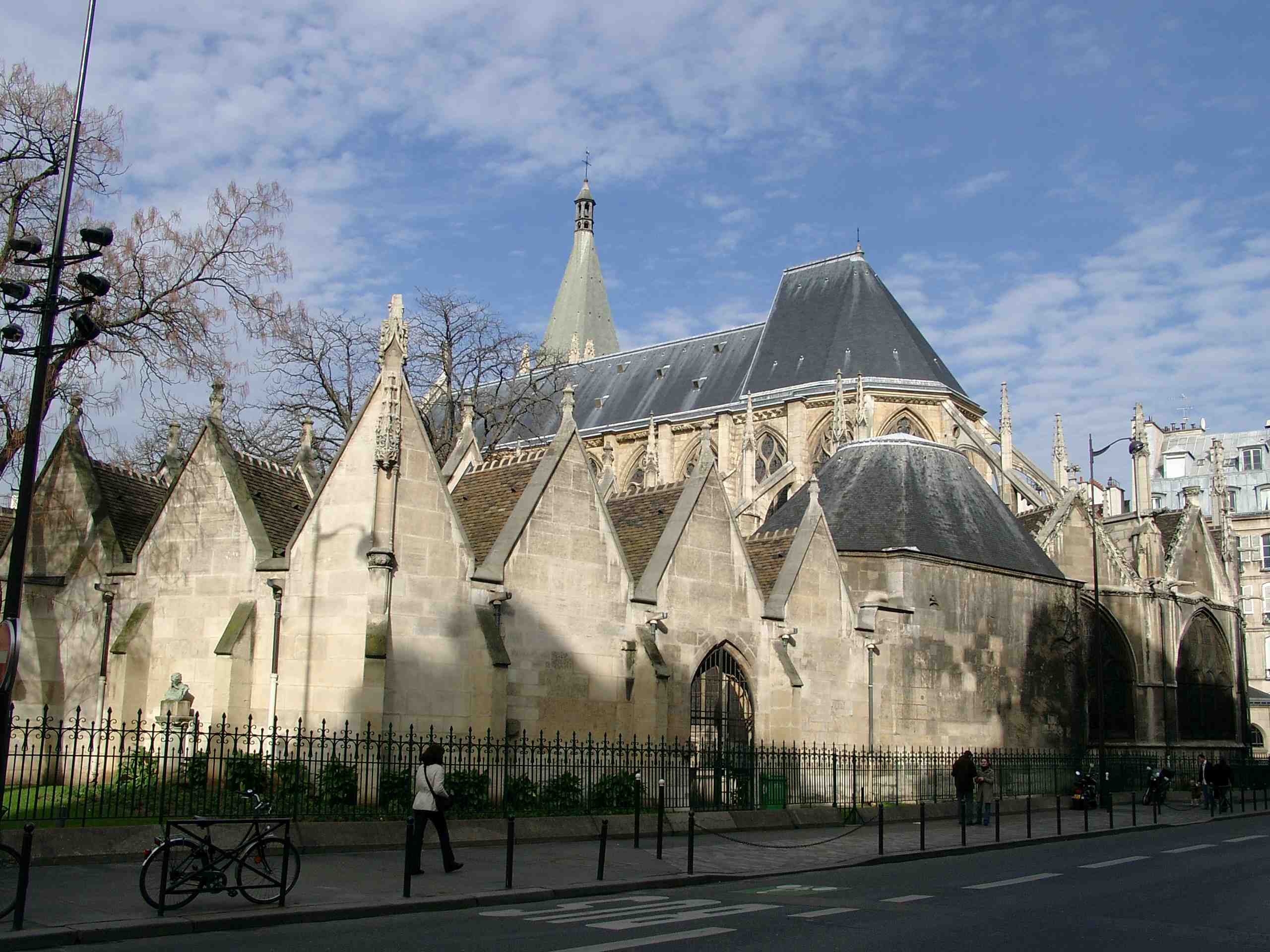 Ancient ossuary, church St. Severin, Paris, view from Rue St. Jacques